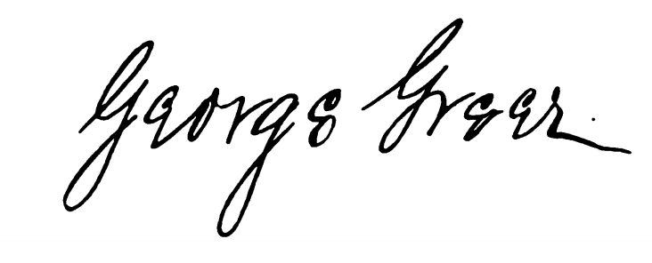 George Greer's Signature taken from the Americana